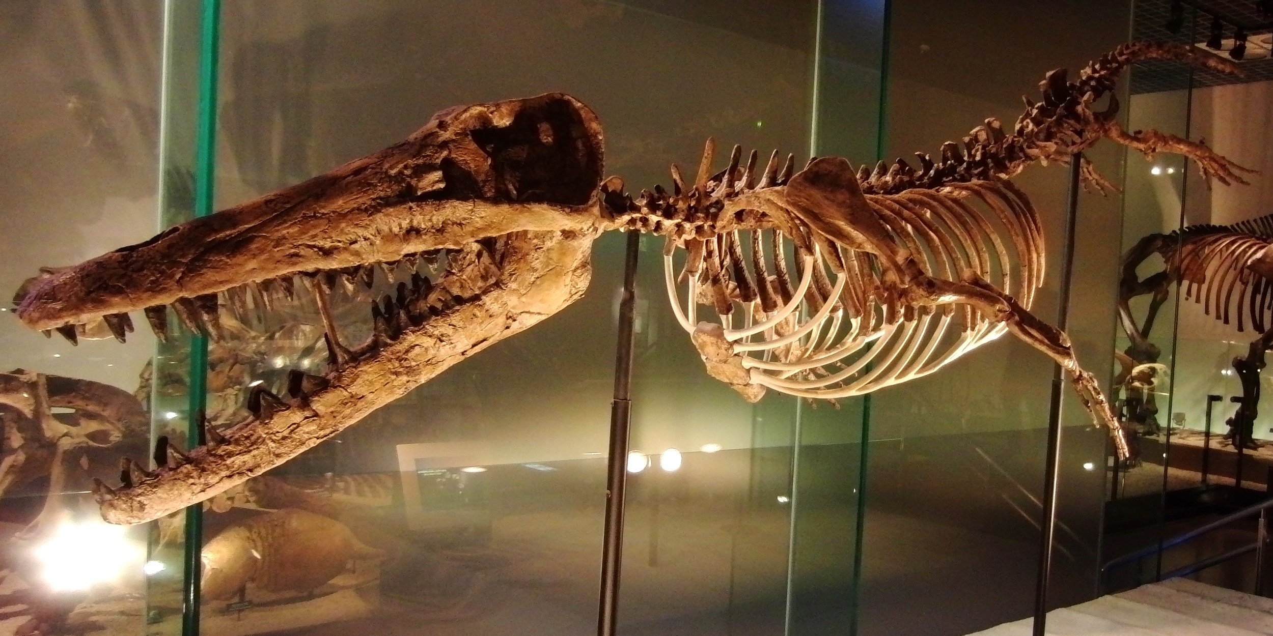 Skelton of Ambulocetus natans. Exhibit in the National Museum of Nature and Science, Tokyo, Japan.